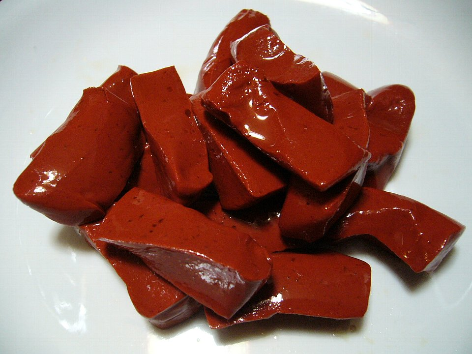 Red konnyaku (Konjac) of Ōmihachiman, taken and retouched by Bakkai.